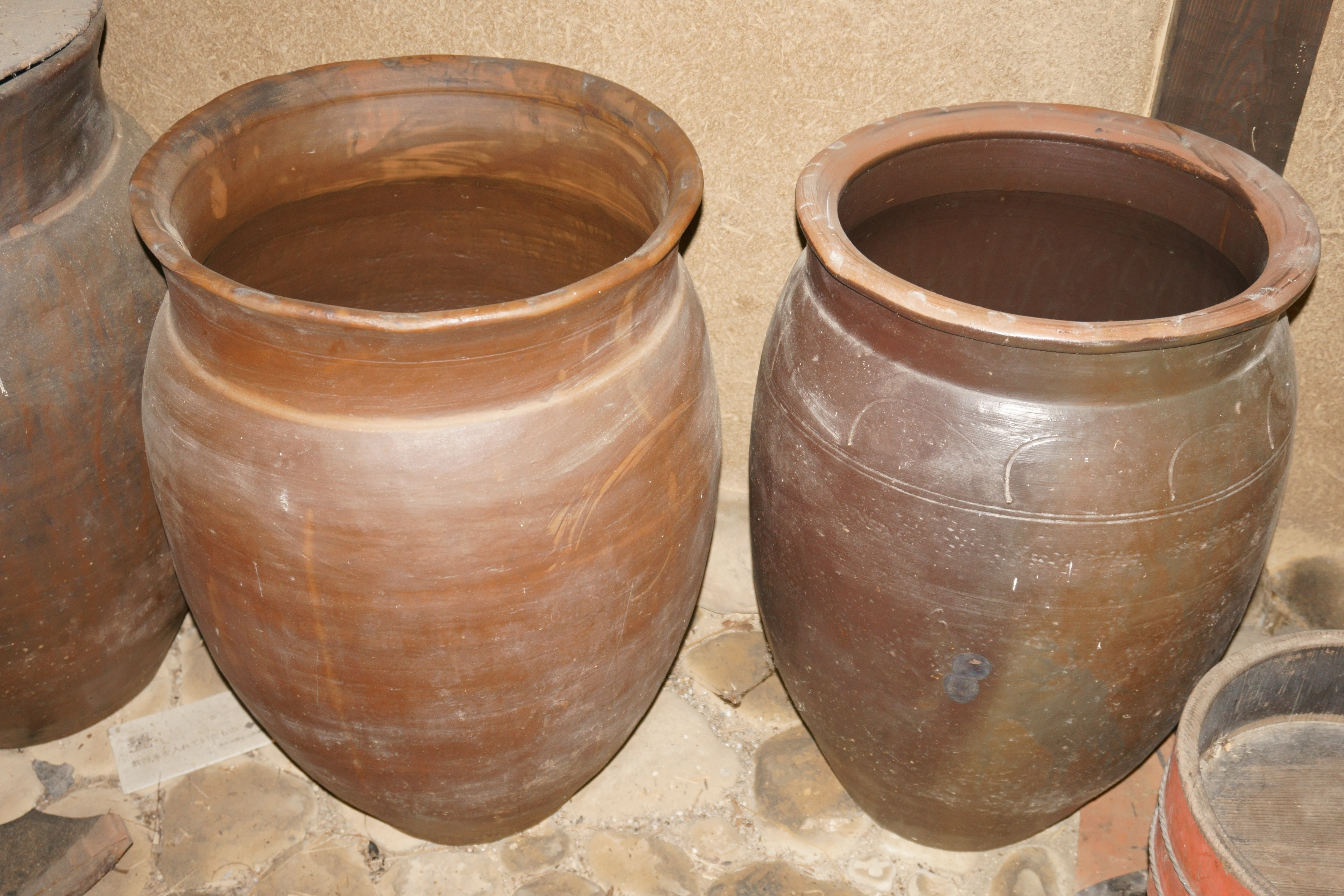 Earthenware tall jars, at Kawauchi Family's House in Itaya, Nishitakumachi, Taku city, Saga prefecture.